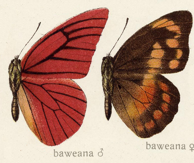 Appias nero baweana Fruhstorfer